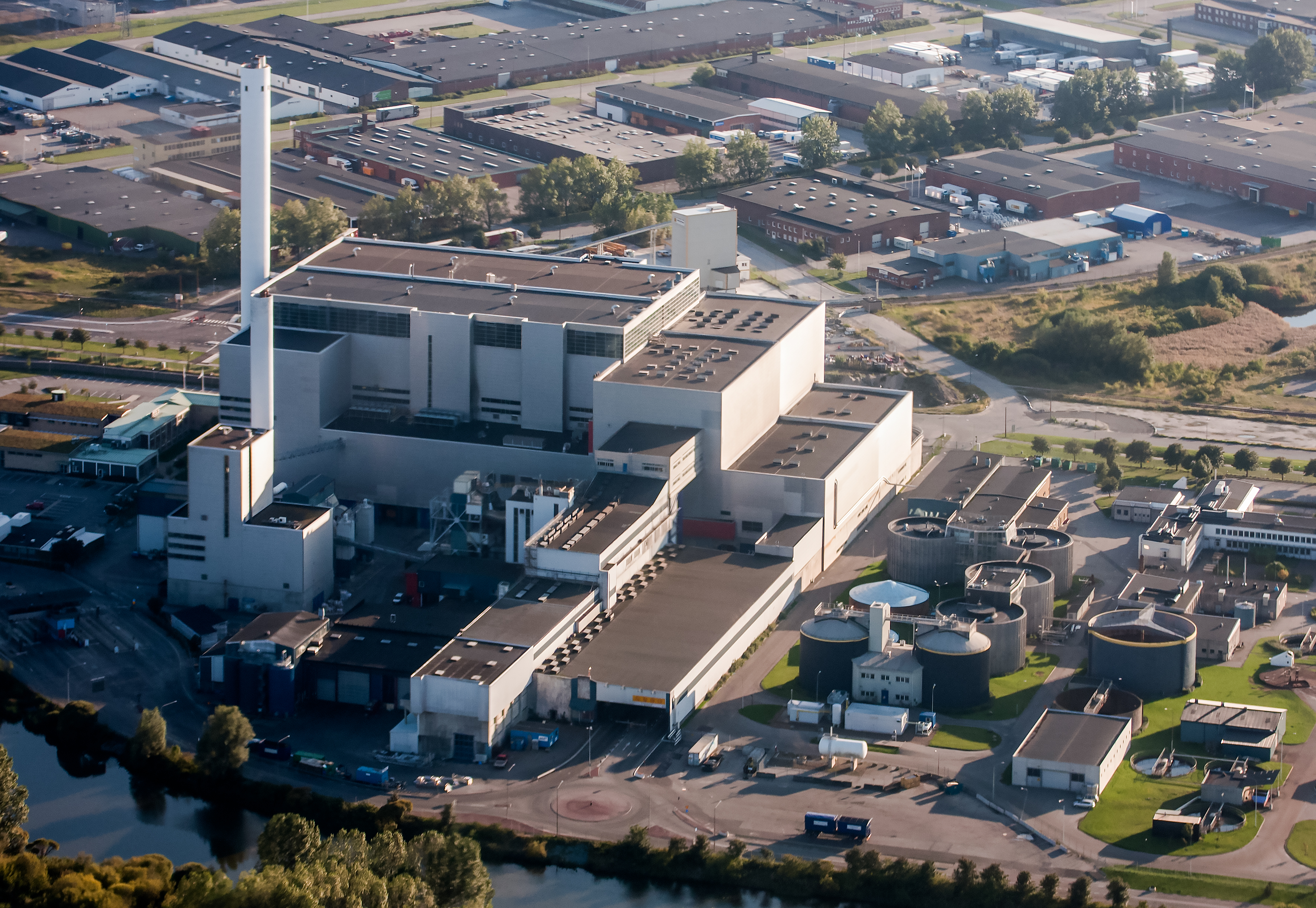 Sysav head office and facility for incineration and animal cremation as well as powerplant for heat and electricity.